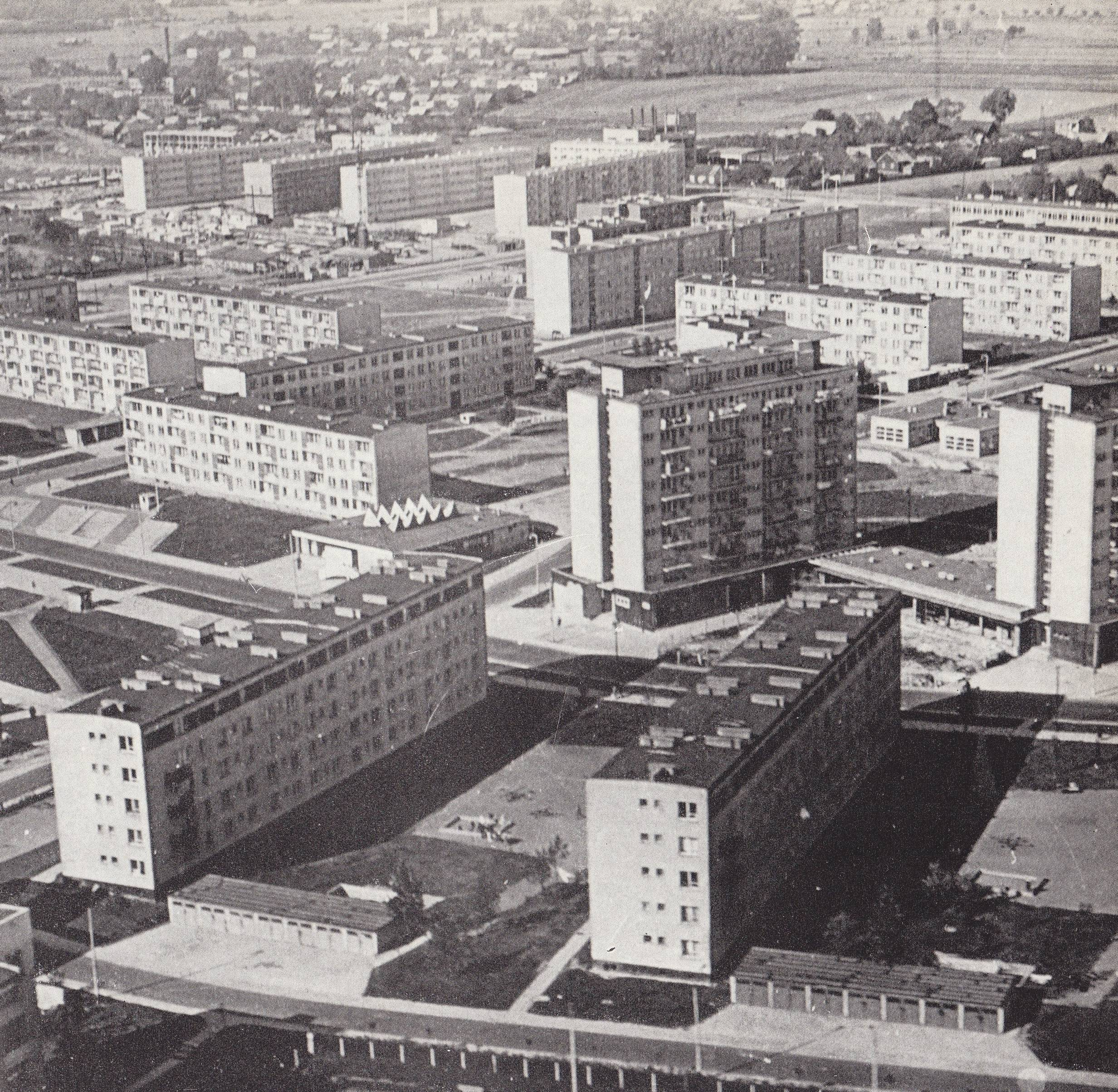 Aerial view on "XV Anniversary of PRL" Neighbourhood in Radom